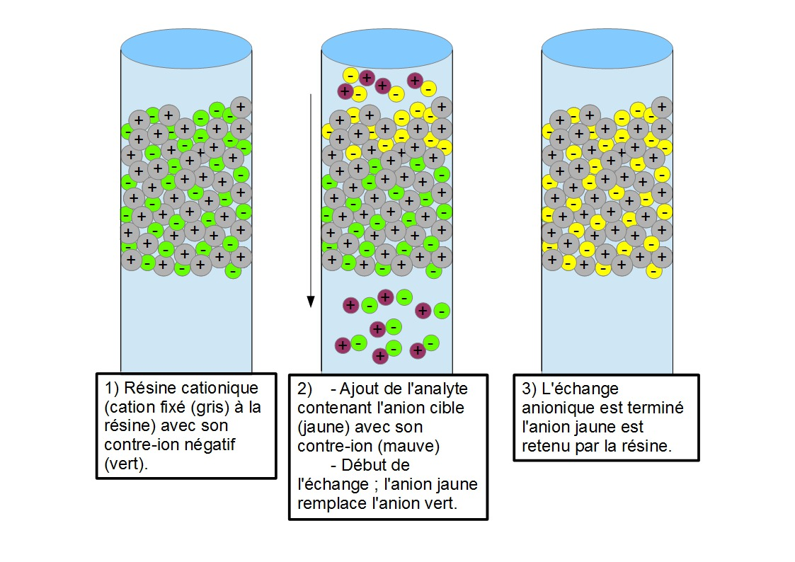 Schéma de l'échange anionique